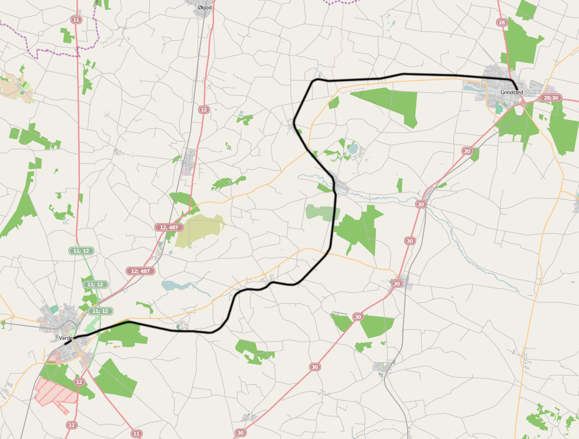 Railway line Varde - Grindsted